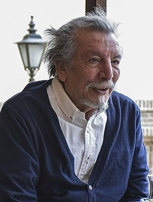 Bahman Mofid